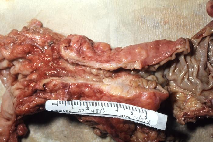 ID#: 64 Description: Gross pathology of adenocarcinoma, colon "Napkin-ring" configuration of colonic adenocarcinoma. Surgical specimen. Content Providers(s): CDC/ Dr. Edwin P. Ewing, Jr. Creation Date: 1974 Copyright Restrictions: None - This image is in the public domain and thus free of any copyright restrictions. As a matter of courtesy we request that the content provider be credited and notified in any public or private usage of this image.